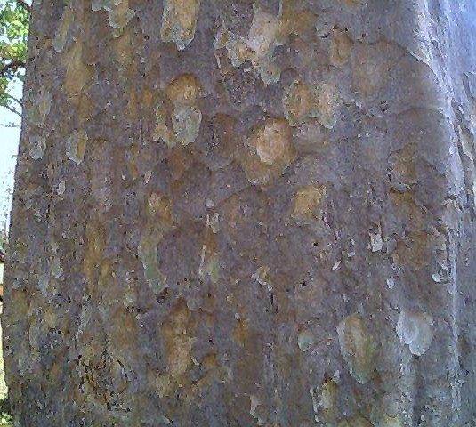 Bark of Annogeissus latifolia tree - a edible gum yielding plant, ocurring in Southern Tropical Moist Deciduous Forests in Maharashtra, India.